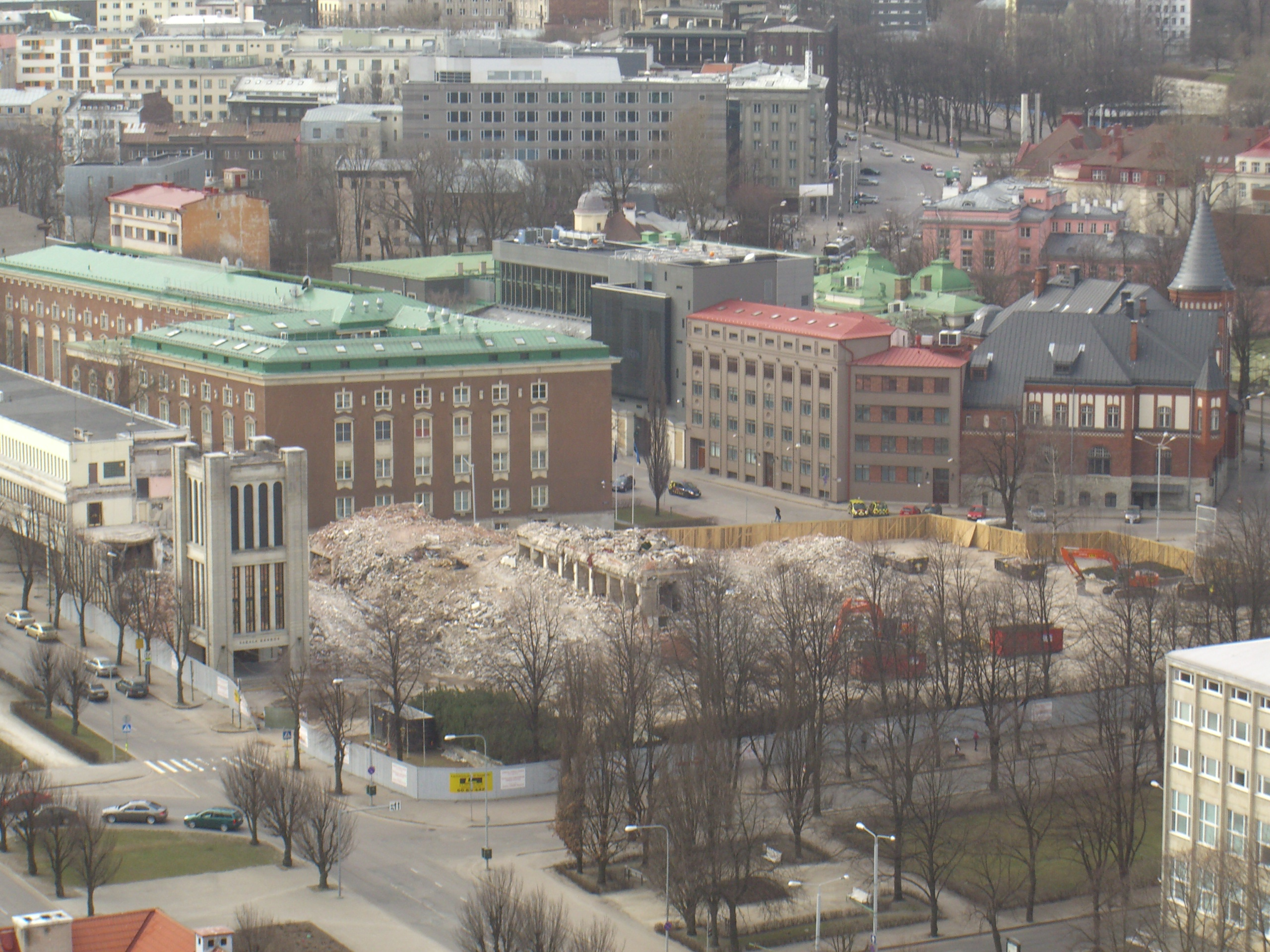 What was left of Sakala Keskus the 6.4.07